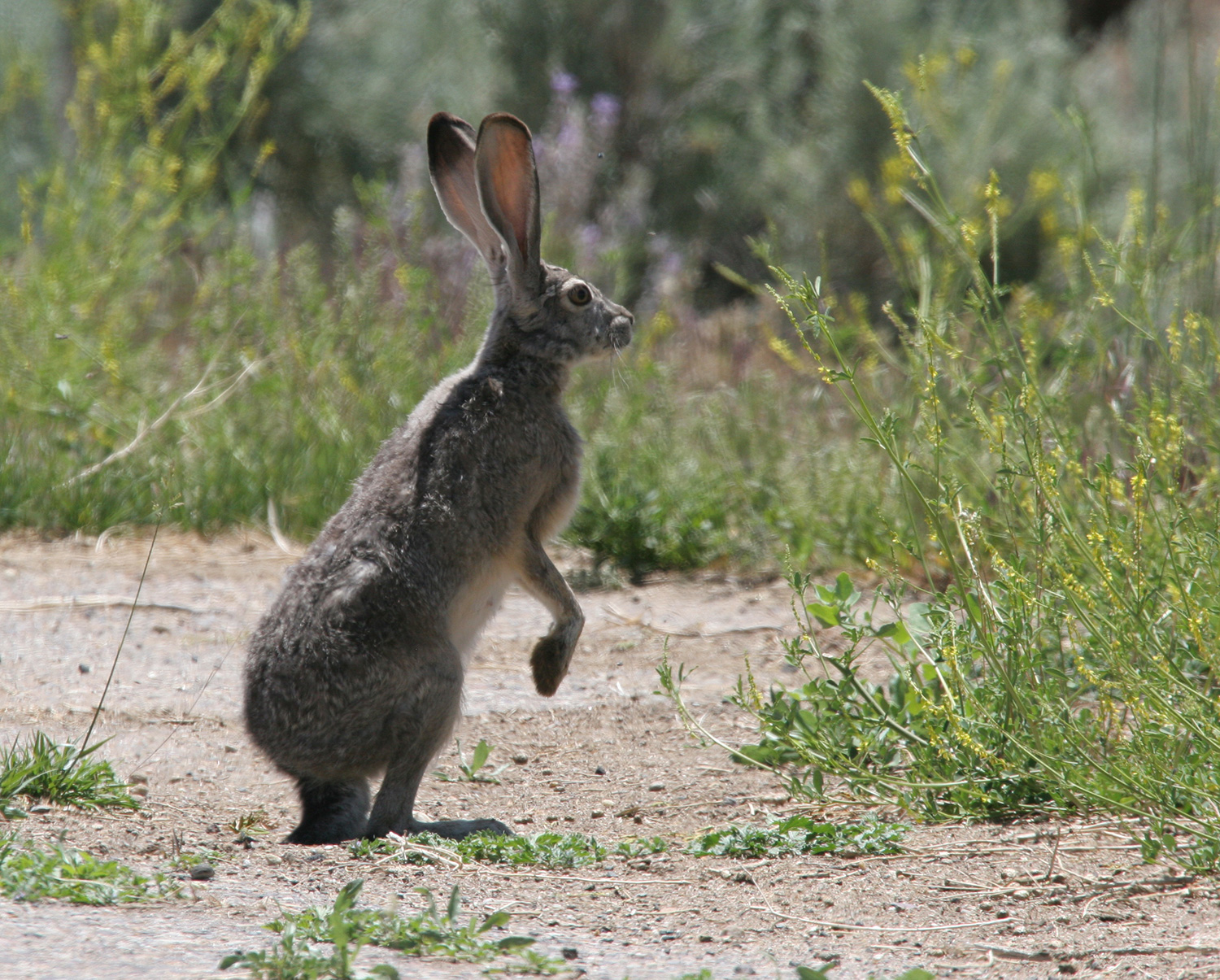 Black-tailed jackrabbit (Lepus californicus), Jiggs, Nevada, USA